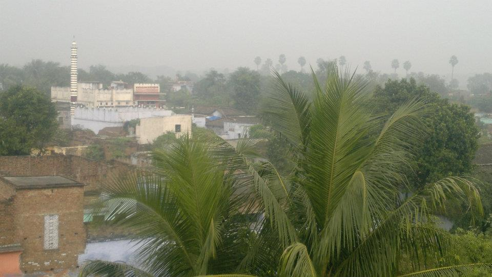 Sonauli Ariel View